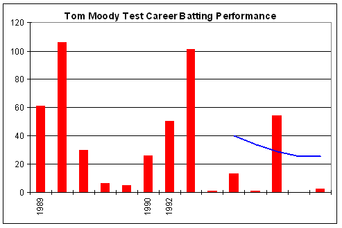 Test batting chart of Tom Moody. Red columns are the runs in the innings. Blue dots indicate not outs. Blue line is average in the last ten innings. Thanks to Raven4x4x for providing the template.